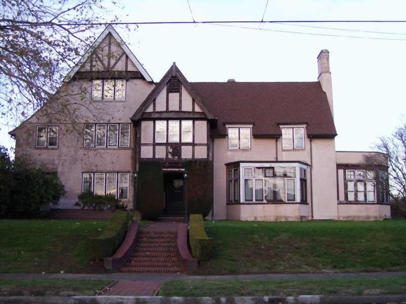 Residence Tudor at 2737 NE Alameda, Portland OR - Front view